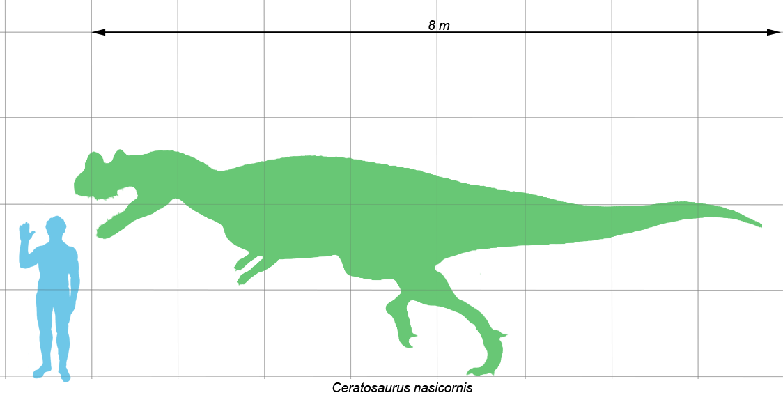 Scale diagram for Ceratosaurus nasicornis, from and original illustration by User:DiBgd.